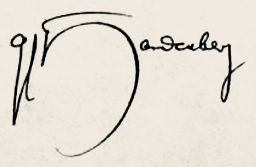 Autograph of Kuno Ferdinand Graf von Hardenberg (1871–1938) from 1930.